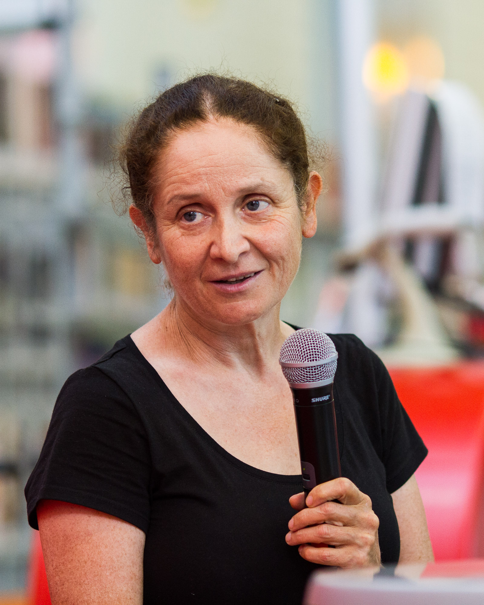 Magdalena Tulli on Authors’ Reading Month 2015, Wrocław, Poland